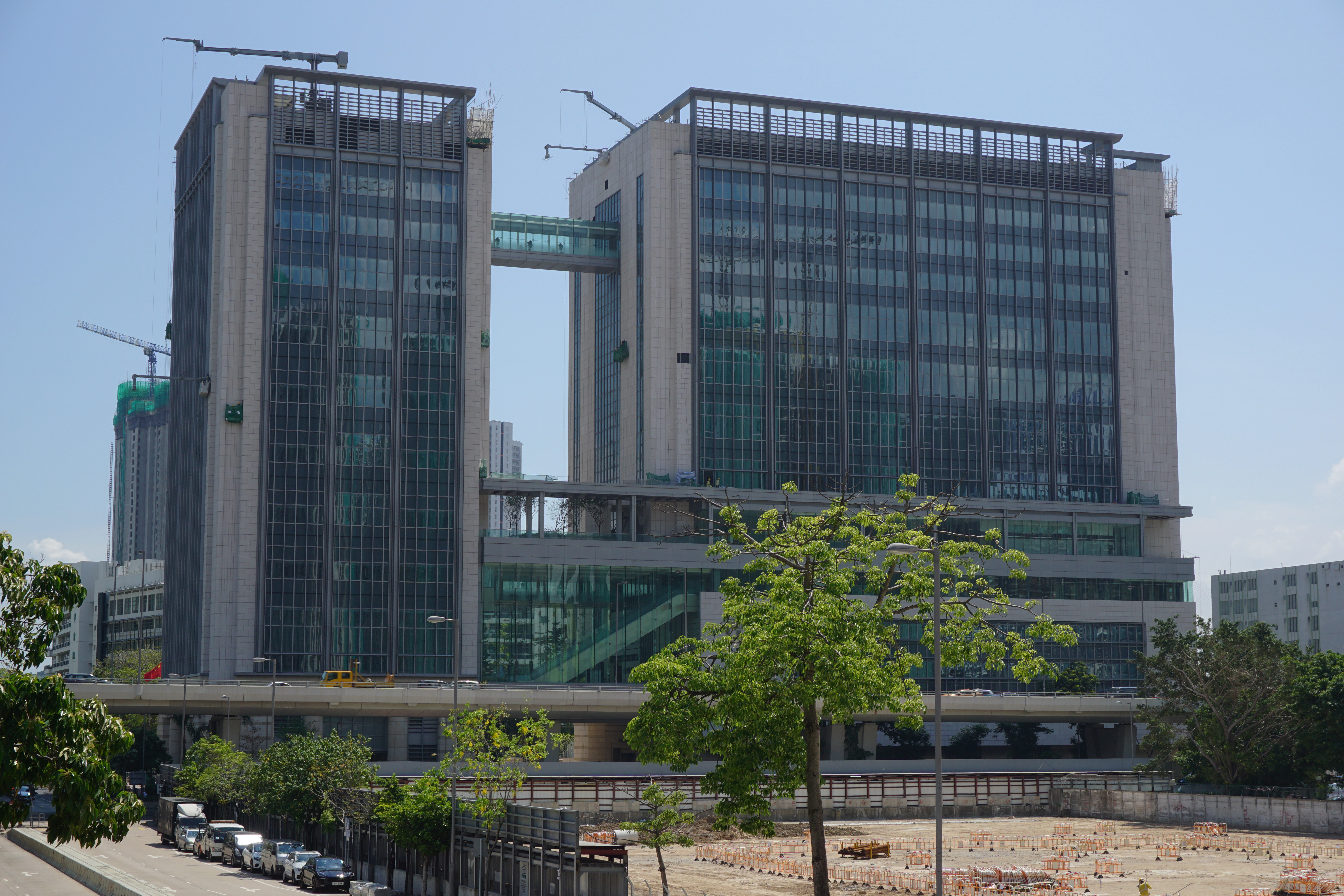 West Kowloon Law Courts Building in Cheung Sha Wan, Hong Kong.